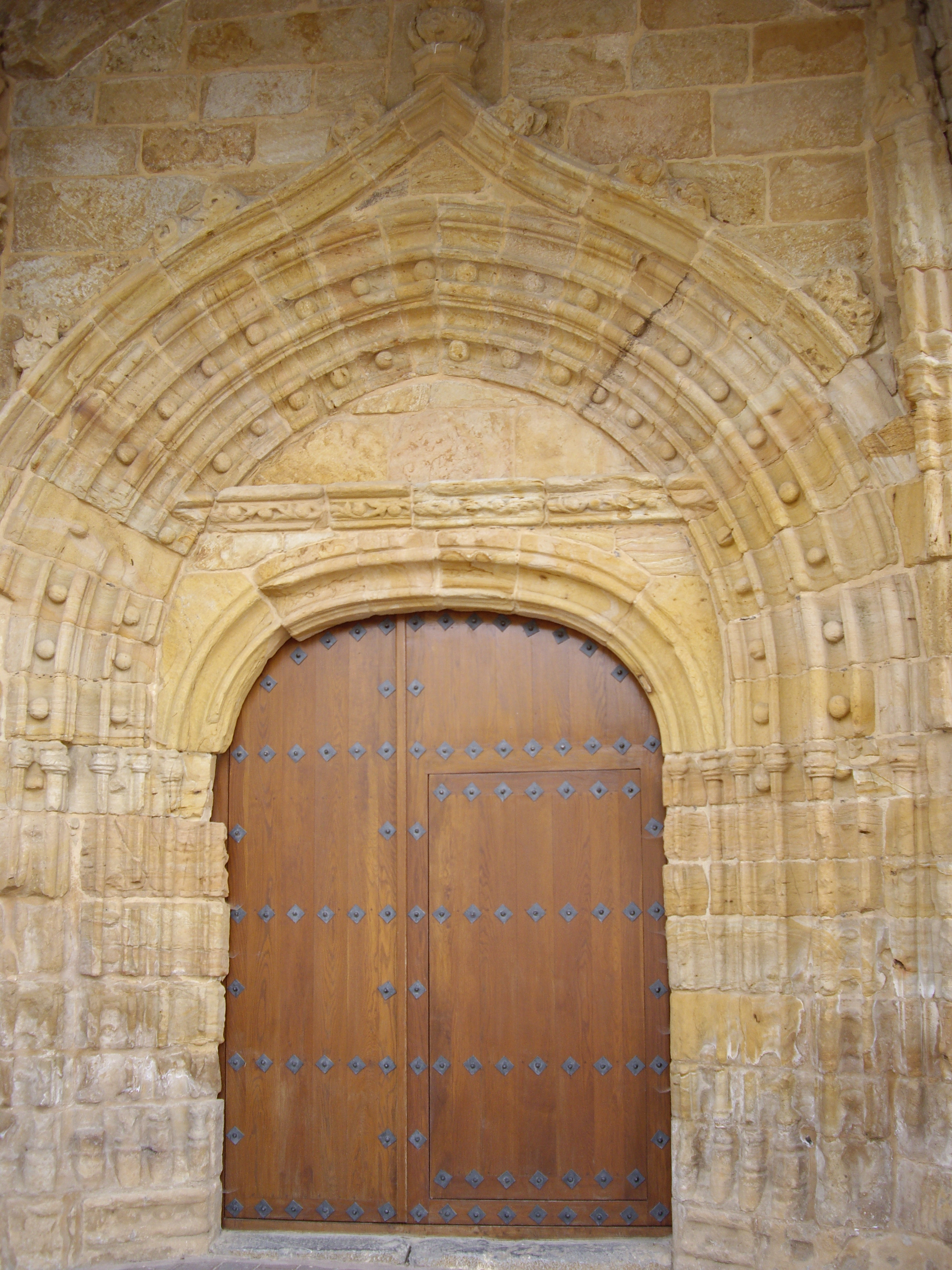 Church of the Assumption of Our Lady in Arnuero (Cantabria, Spain). XVth-XVIth centuries. Late Gothic architecture. Arch door on the Western façade, it lies below the tower.